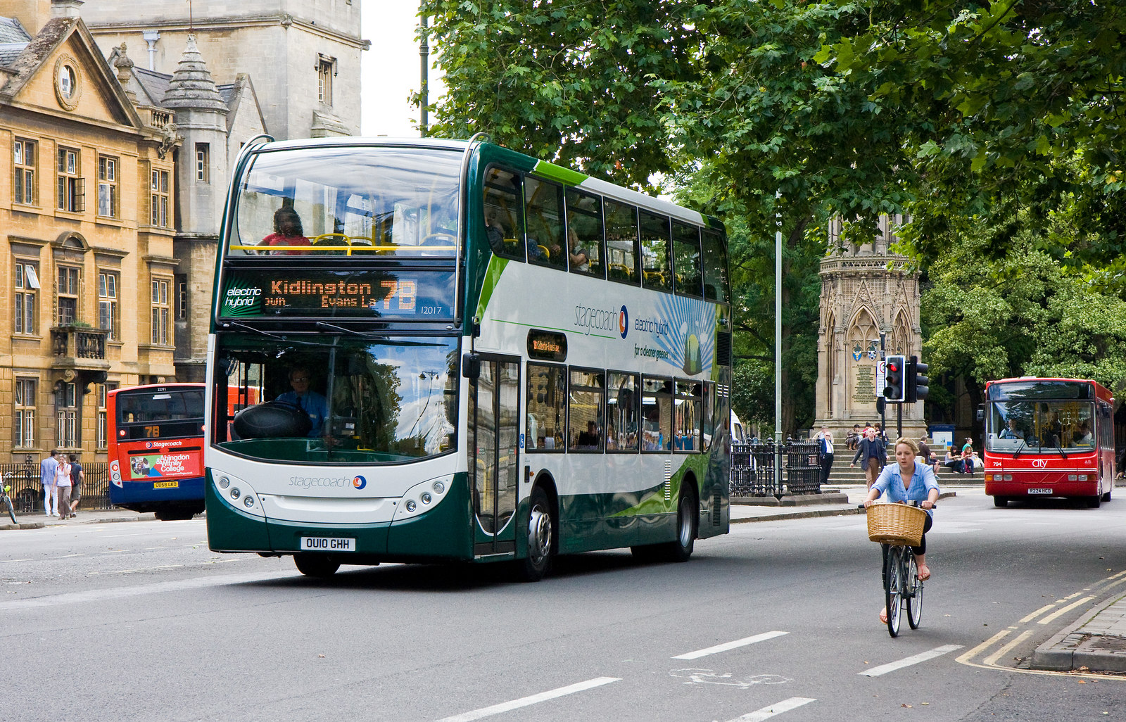 Buses and a cyclist in Saint Giles' Street, Oxford. The green and white bus on route 7B is an Alexander Dennis Enviro 400H diesel-electric hybrid of Stagecoach in Oxfordshire, fleet number 12017, registration mark OU10 GHH.